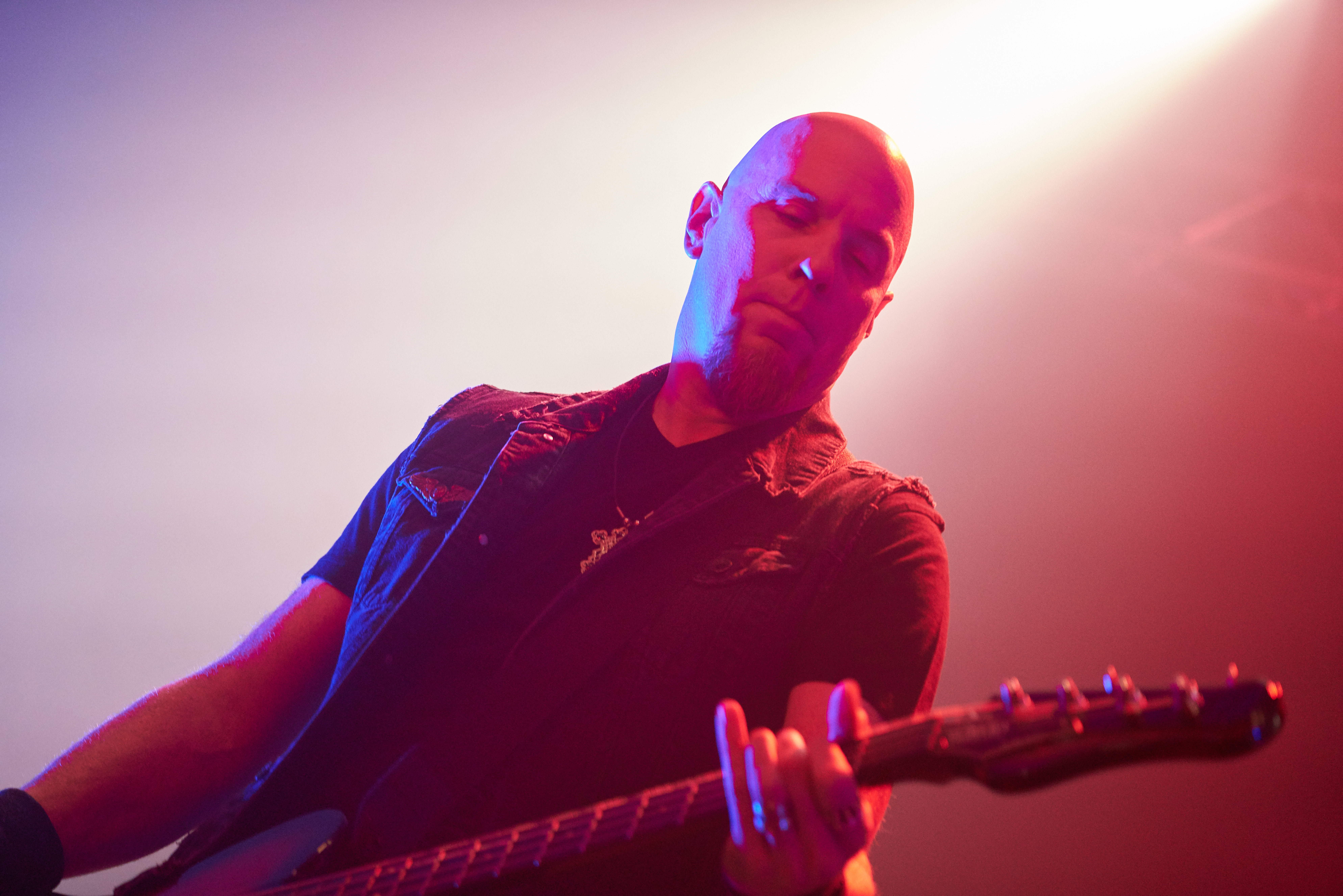 Pentagram at Hammer of Doom Festival, Würzburg, Posthalle, 20.11.2015 Festivalsommer This photo was created with the support of donations to Wikimedia Deutschland in the context of the CPB project "Festival Summer". Personality rights warning Although this work is freely licensed or in the public domain, the person(s) shown may have rights that legally restrict certain re-uses unless those depicted consent to such uses. In these cases, a model release or other evidence of consent could protect you from infringement claims.